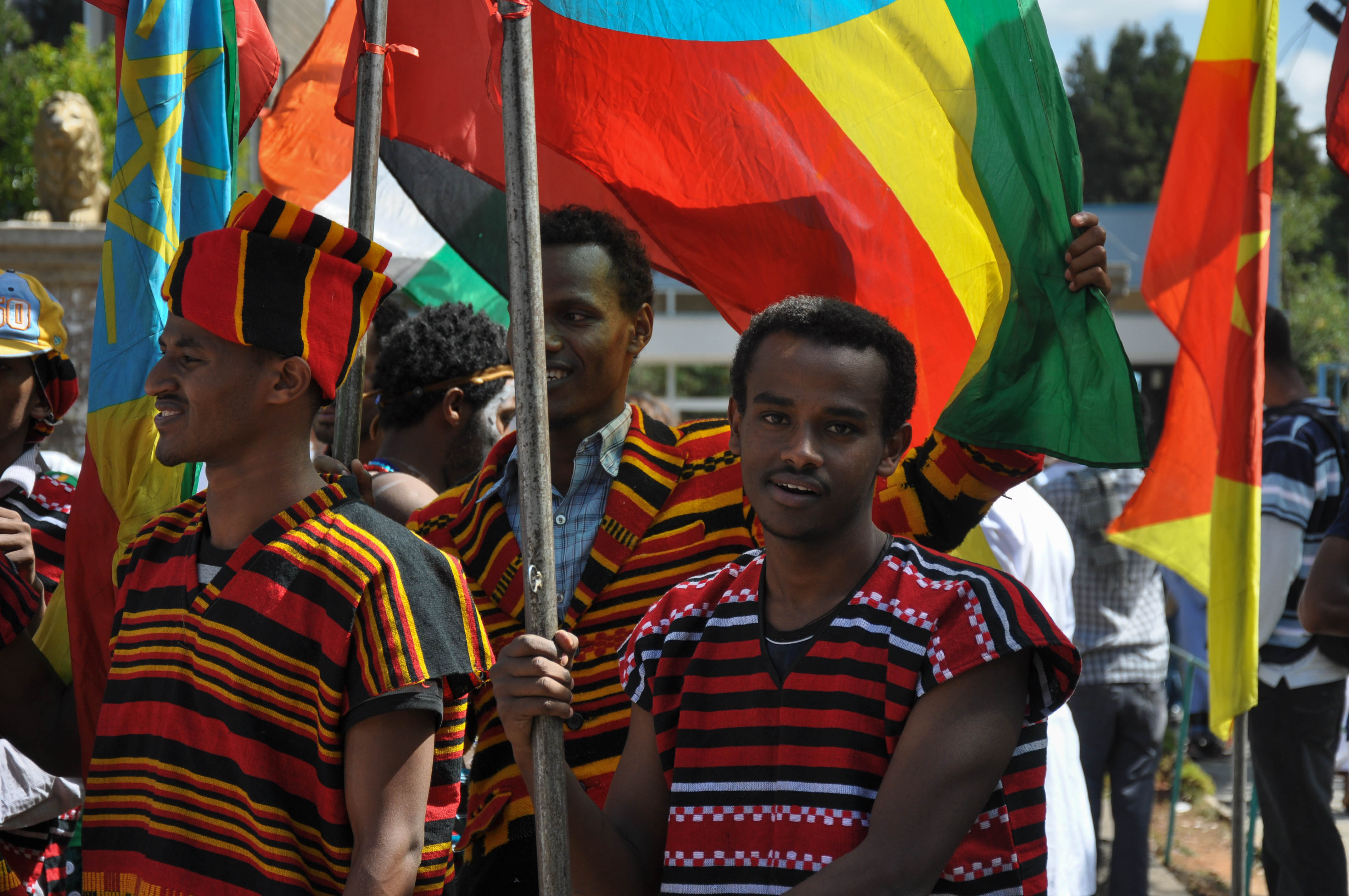 Traditional attire of the Sidama tribe in the south of Ethiopia This is an image of Cultural Fashion or Adornment from Ethiopia